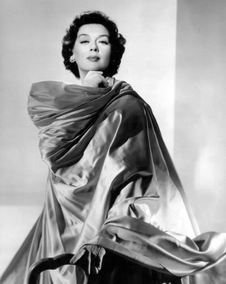 Photo of Rosalind Russell from the television program General Electric Theater.